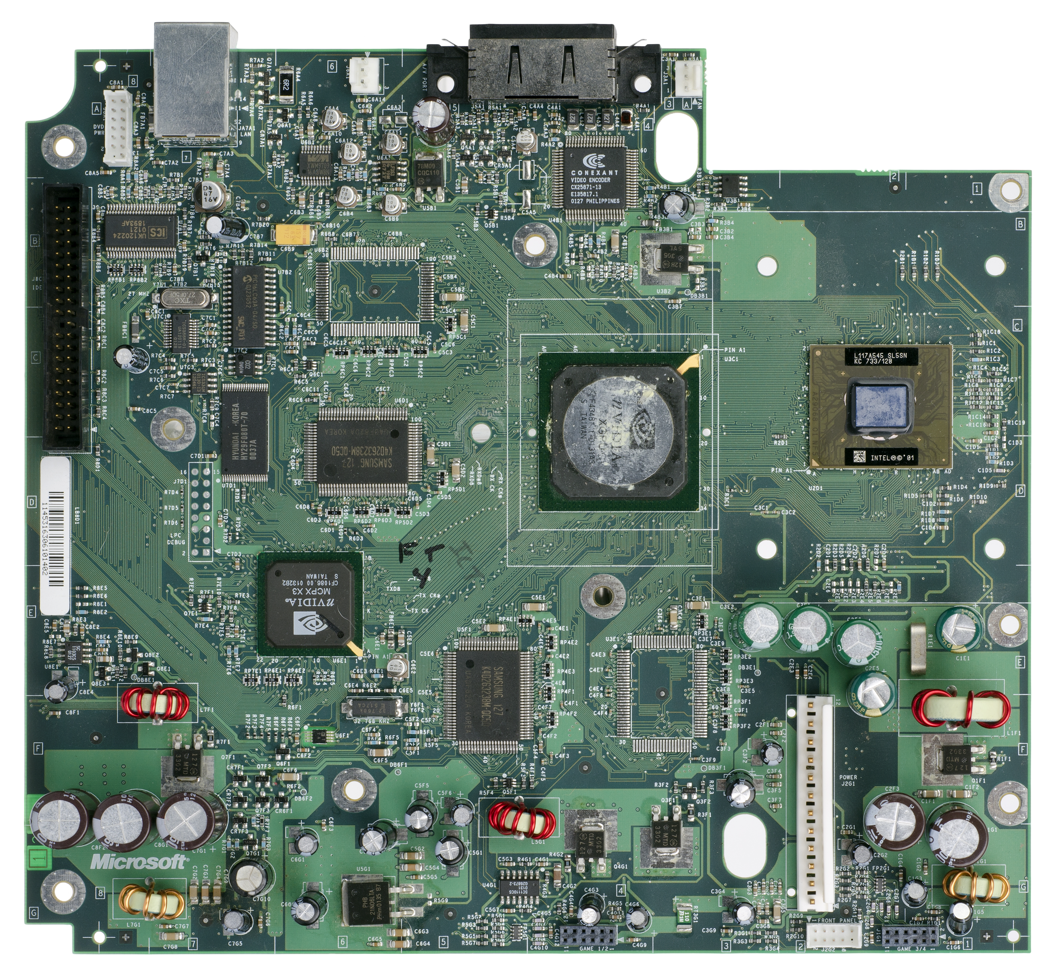 The motherboard of the Xbox, a sixth-generation gaming console made by Microsoft that was first released in 2001. The Xbox was Microsoft's first foray into the gaming console market, and was followed by the Xbox 360 in 2005. The console is notable for having a built-in hard drive, breakaway controller dongles and an Ethernet port to support Microsoft's online gaming service, Xbox Live. This picture shows console's motherboard. This is the first version (1.0) of the Xbox motherboard. Later revisions would reduce components and streamline the board.